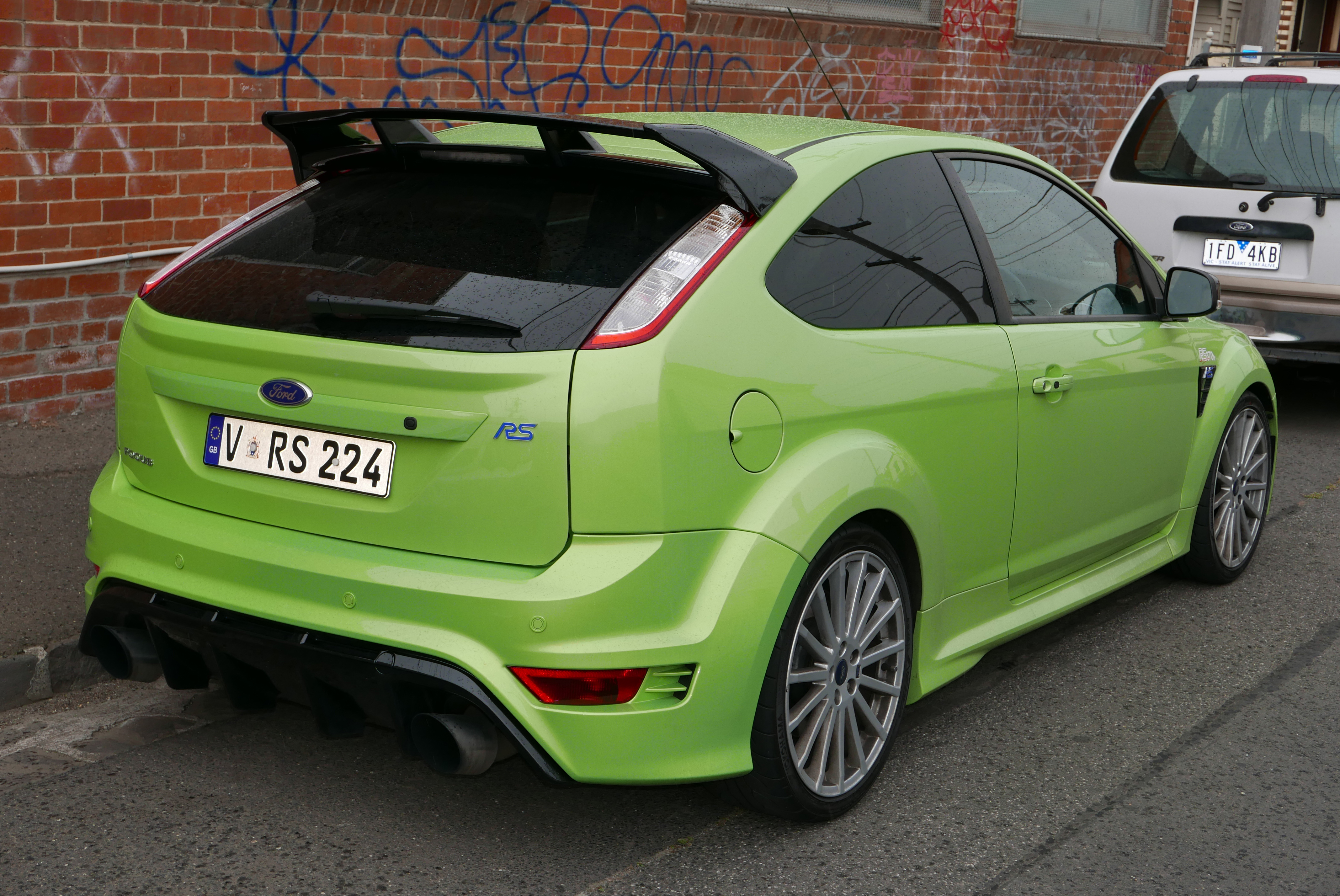 2010 Ford Focus (LV) RS 3-door hatchback, with GGR RS370FR upgrade. Photographed in Brunswick, Victoria, Australia. Vehicle registration enquiry resultsJurisdictionVictoriaRegistrationVRS224Chassis codeWF0GXXGCDGAU20137Engine codeJZDAAU20137Compliance date2010-08Year of manufacture2010